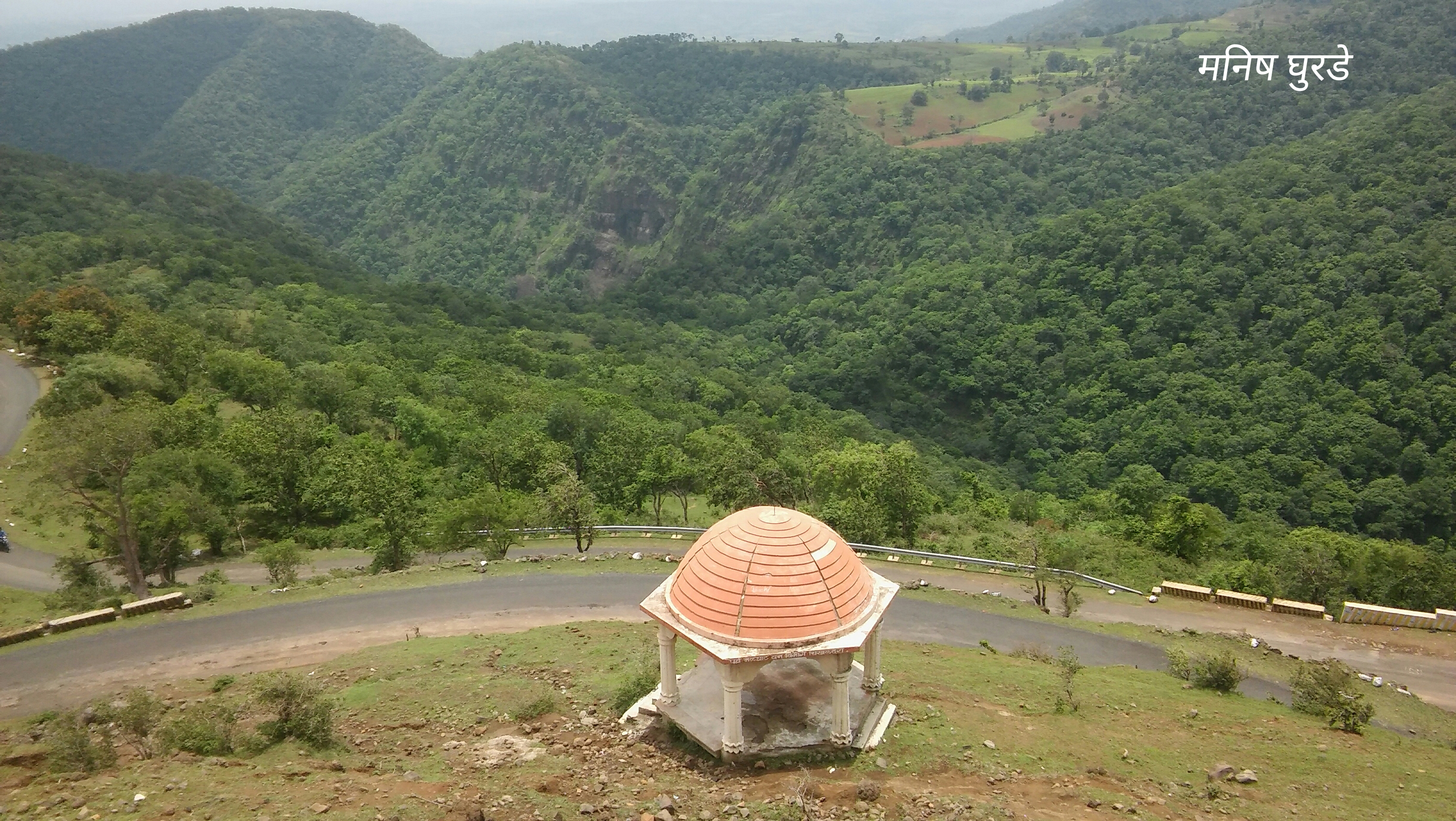 Chikhaldara Road